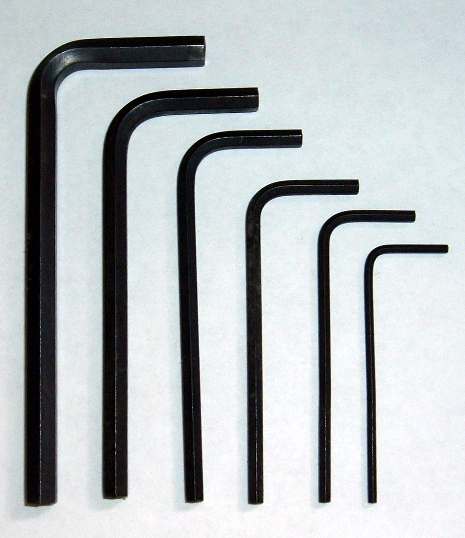 An assortment of metric Allen keys